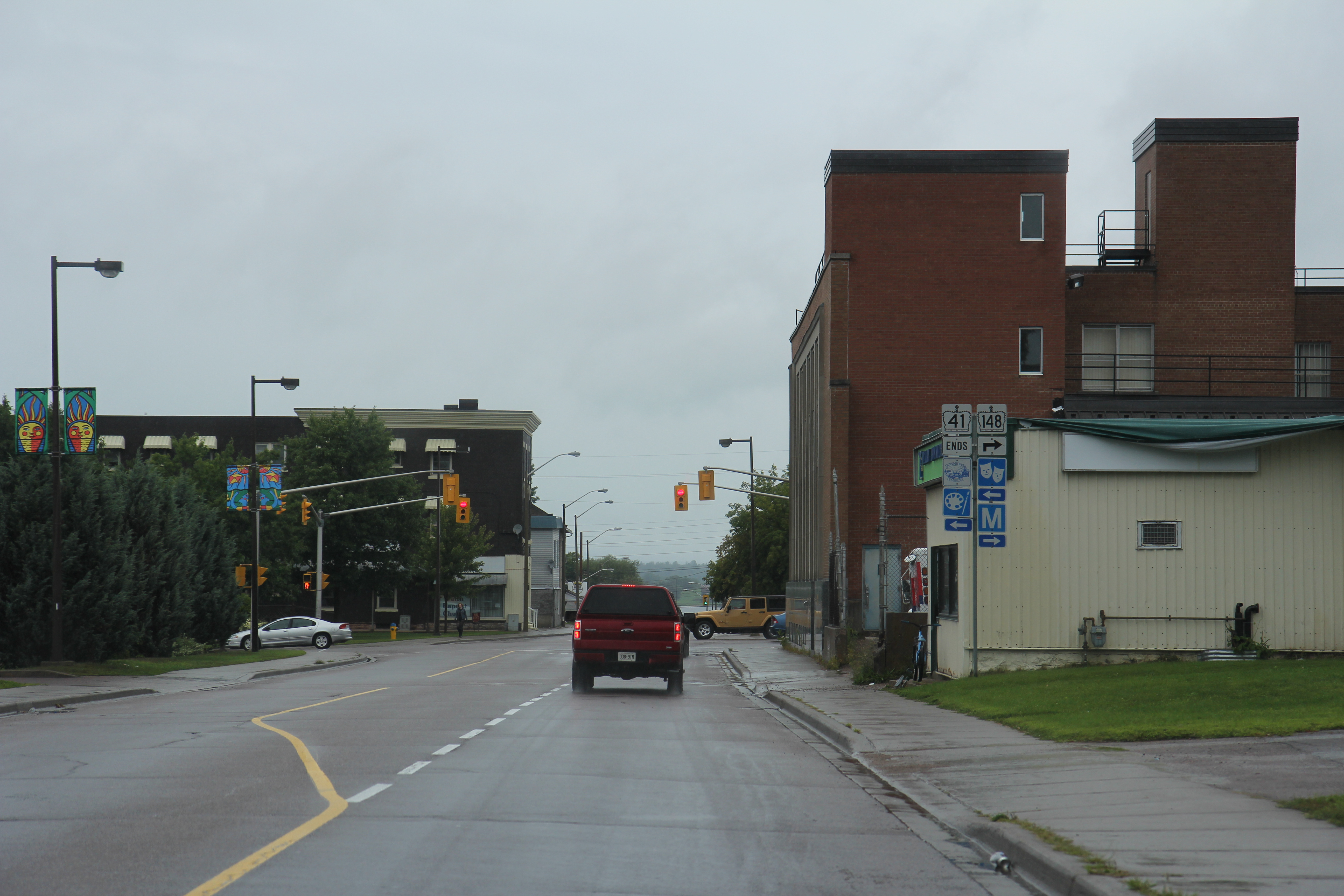 Ontario Highway 41 northern terminus in Pembroke